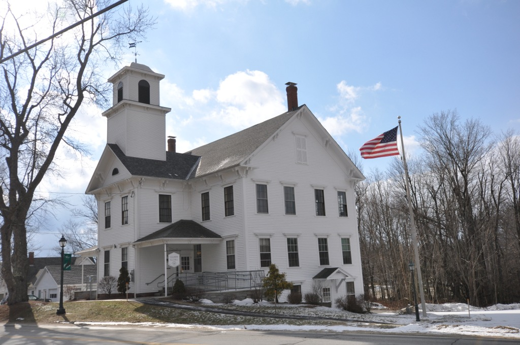 The town hall in Greenfield, New Hampshire.